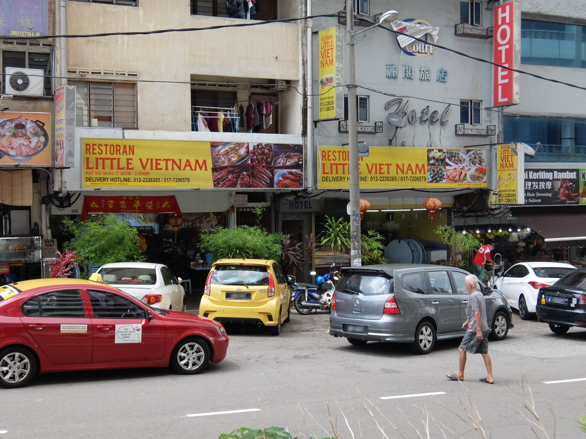 Little Vietnam Restaurant, Taman Sentosa, Johor Bahru, Johor, Malaysia